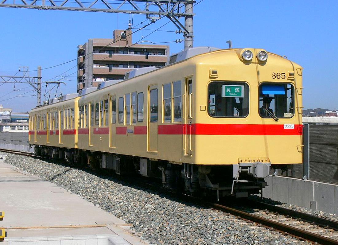 Nishi-Nippon-Railroad Type 365 Train (Japan).It takes a picture from the platform with Nishitetu Cashii Station in the Nishitetu-Kaiduka line.